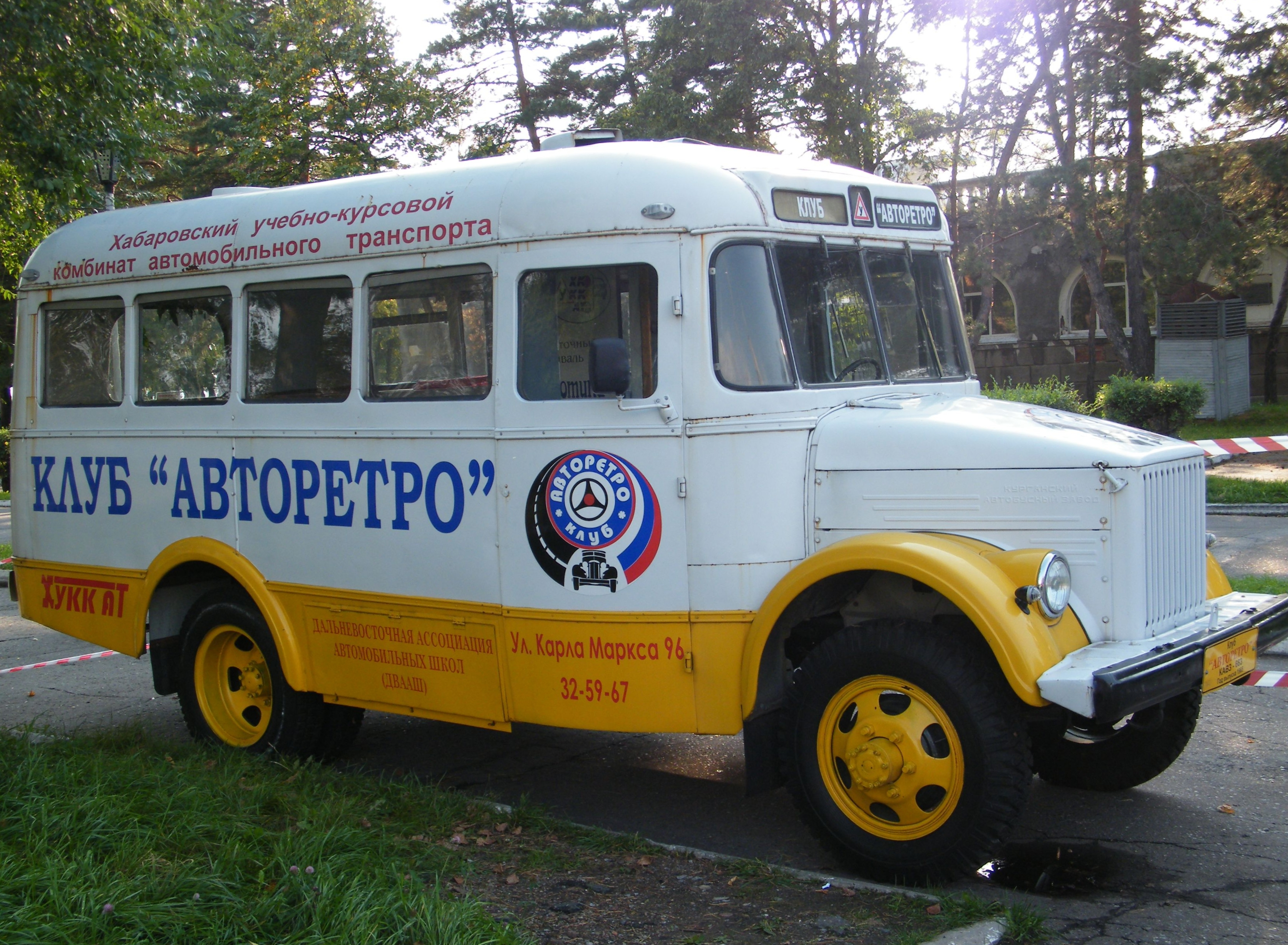 КаВЗ-663